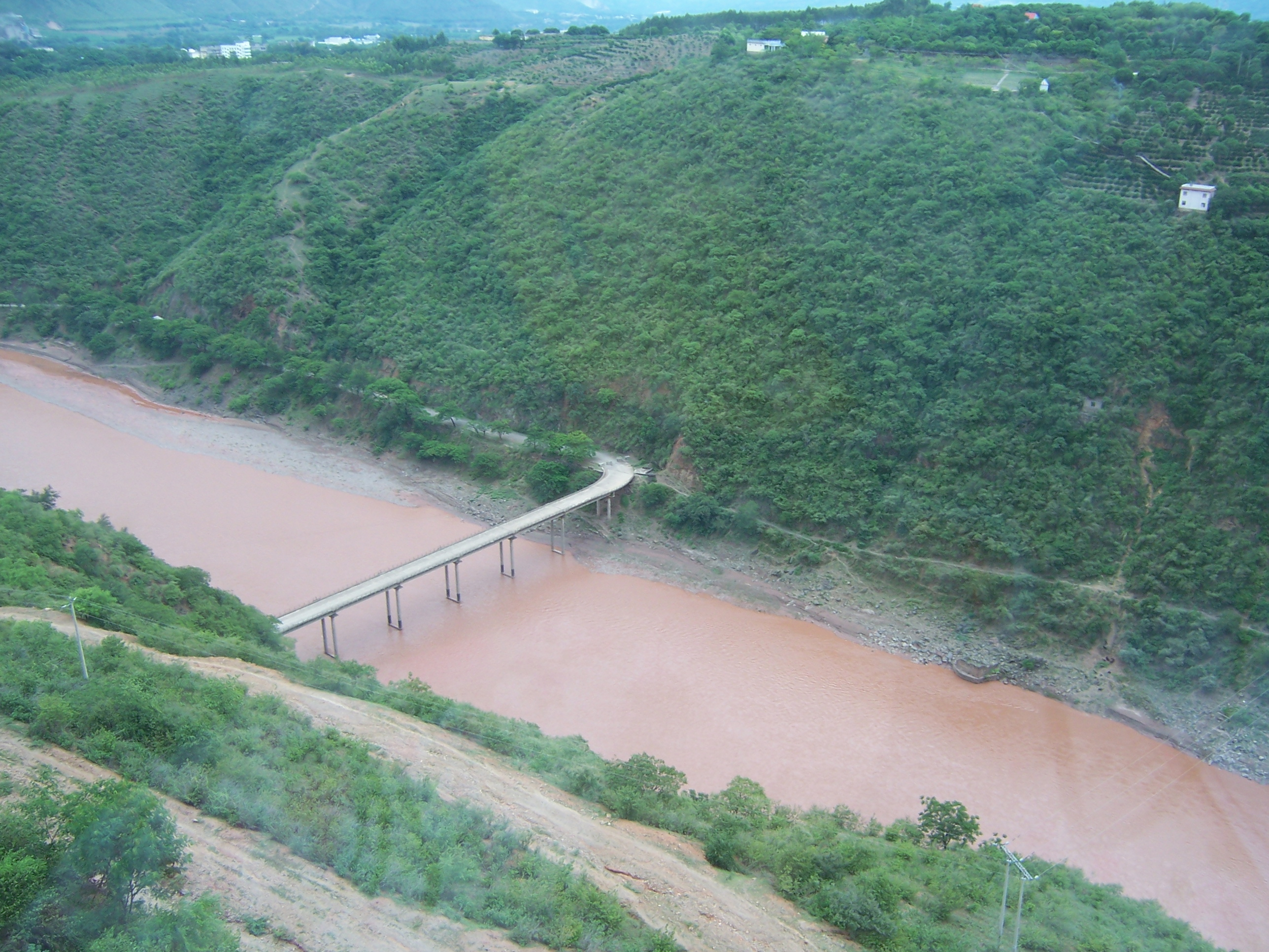 A small bridge by the side of the big bridge over the Red River (aka Yuanjiang River). Yuanjiang Hani and Yi County, Yuxi City.